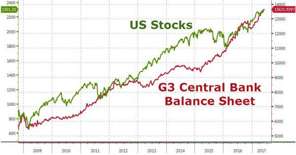 Recreation of a well-known chart from BIS data and Bloomberg data of the G3 central bank balance sheets: FEB, ECB and the BOJ versus the MSCI U.S. Stocks Index